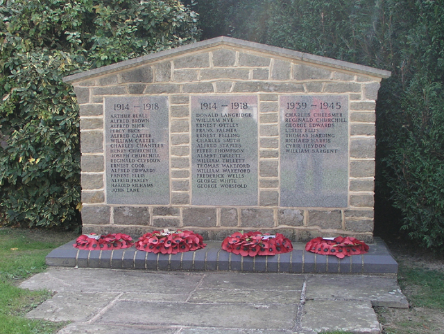 War Memorial, Broadbridge Heath. On the Billingshurst Road near Church of St John.